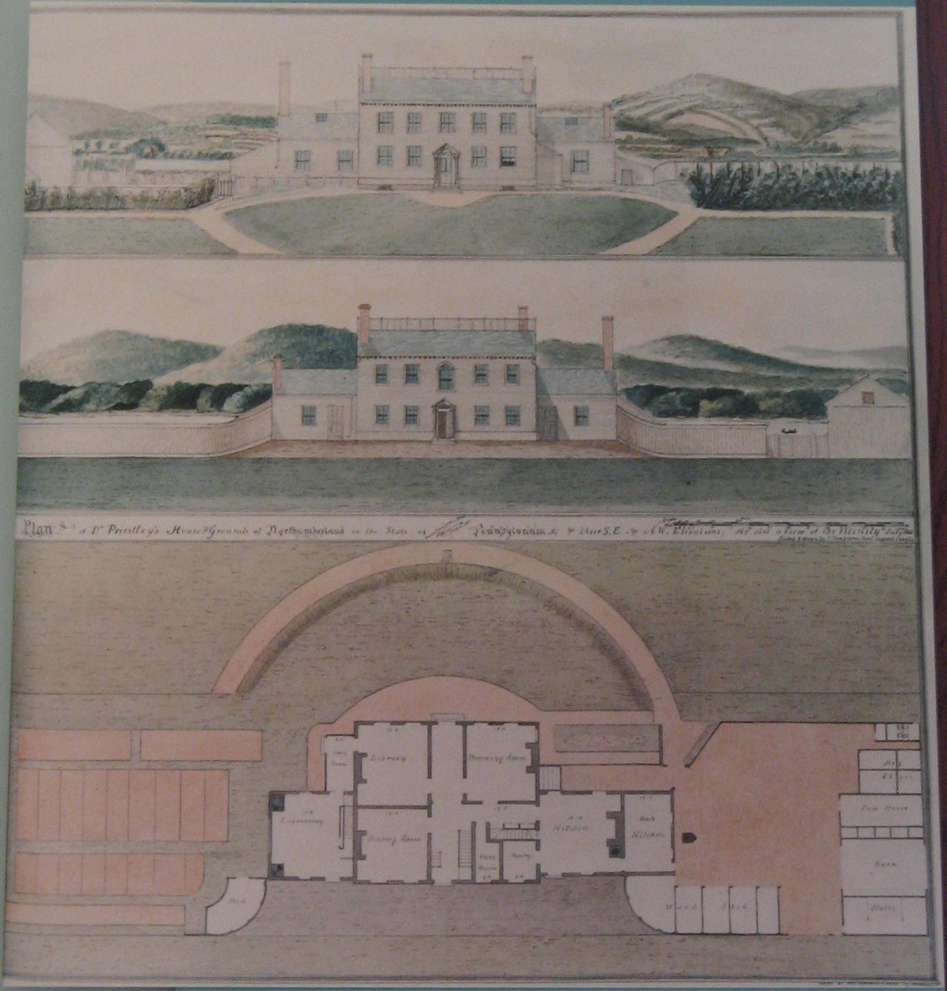 T. Lambourne's plan for the Joseph Priestley House.